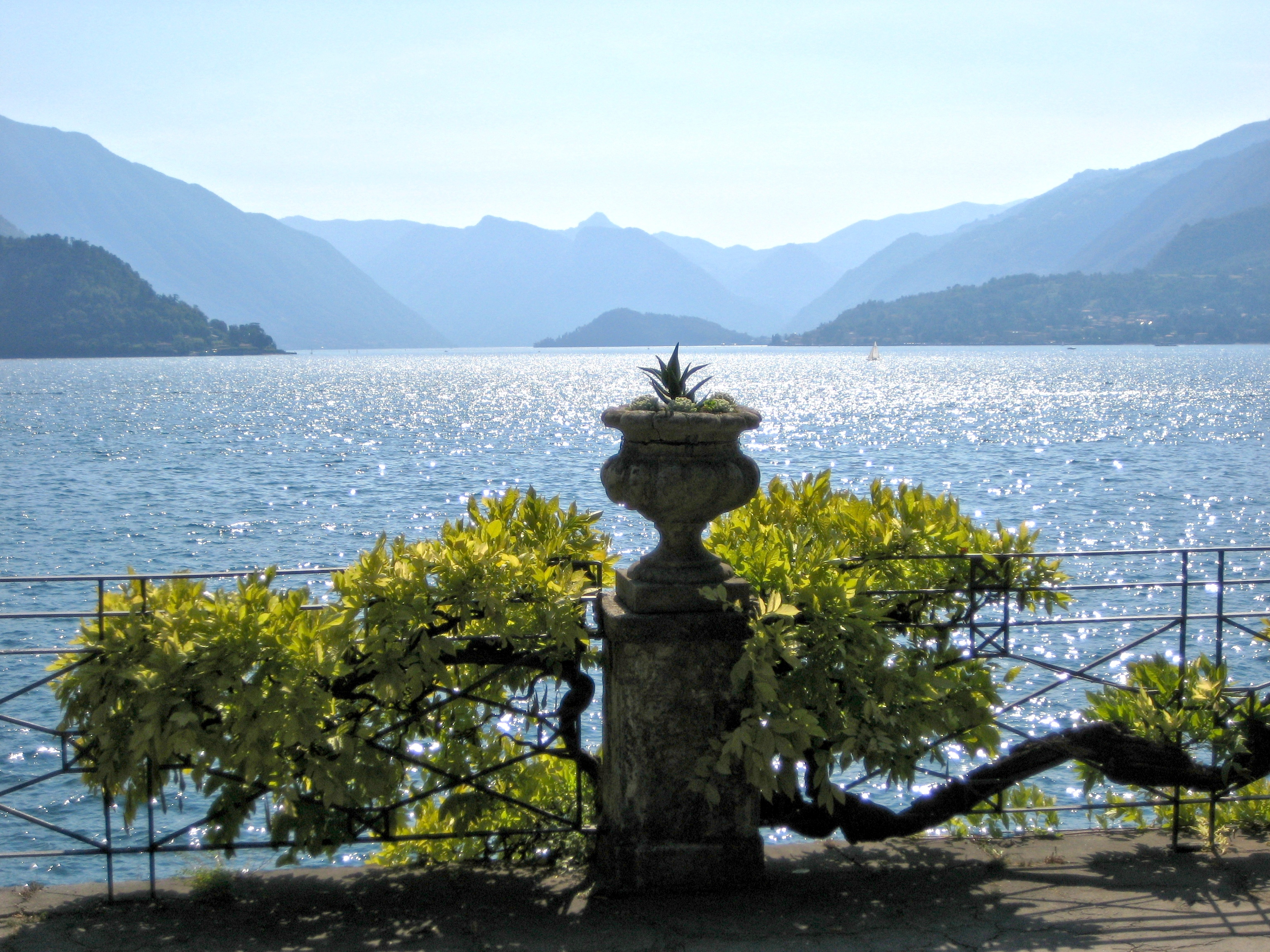 The Lake Como seen from Varenna